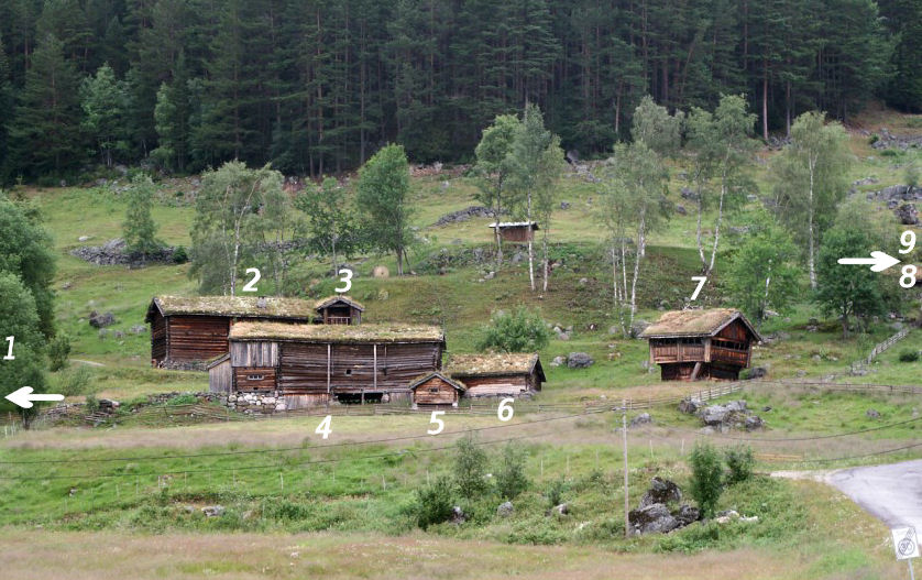 Rygnestadtunet, farm museum in Valle municipality, Setesdal, Aust-Agder county, Norway. Part of Setesdalsmuseet.